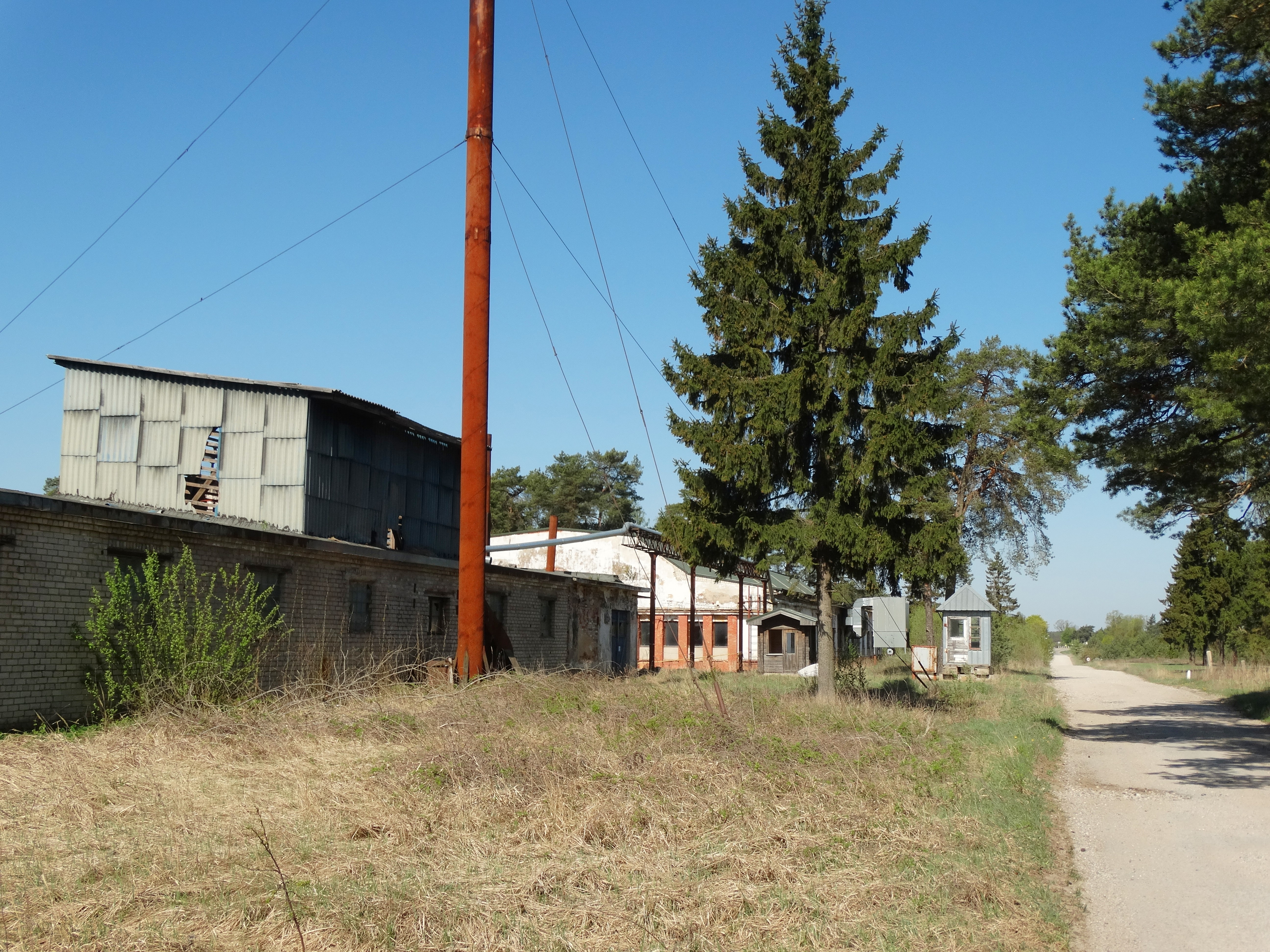 Linkaičiai, Radviliškis district, Lithuania